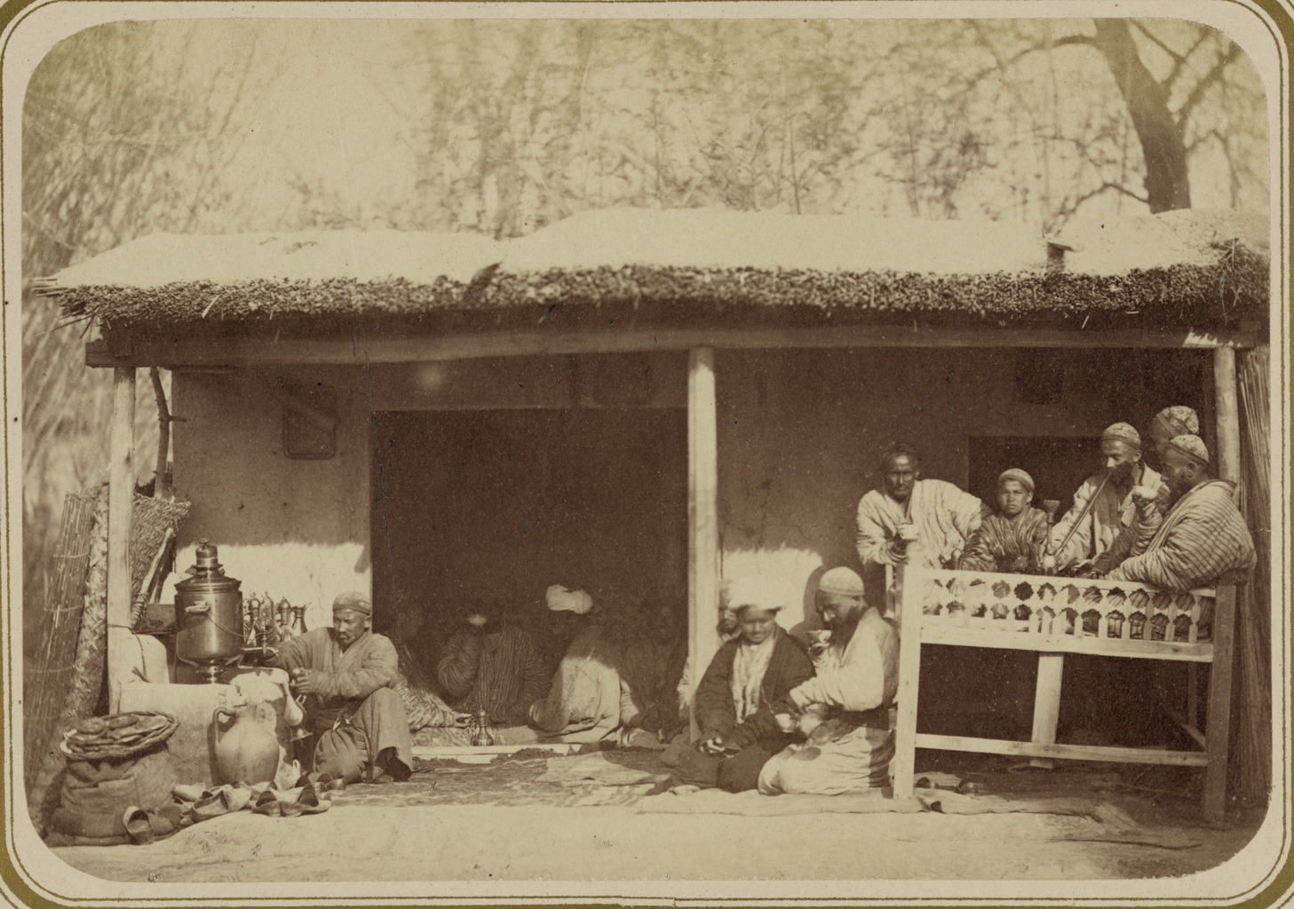 This photograph is from the ethnographical part of Turkestan Album, a comprehensive visual survey of Central Asia undertaken after imperial Russia assumed control of the region in the 1860s. Commissioned by General Konstantin Petrovich von Kaufman (1818–82), the first governor-general of Russian Turkestan, the album is in four parts spanning six volumes: “Archaeological Part” (two volumes); “Ethnographic Part” (two volumes); “Trades Part” (one volume); and “Historical Part” (one volume). The principal compiler was Russian Orientalist Aleksandr L. Kun, who was assisted by Nikolai V. Bogaevskii. The album contains some 1,200 photographs, along with architectural plans, watercolor drawings, and maps. The “Ethnographic Part” includes 491 individual photographs on 163 plates. The photographs show individuals representing the different peoples of the region (Plates 1–33); daily life and rituals (Plates 34–91); and views of villages and cities, street vendors, and commercial activities (Plates 92–163). Cafés; Eating and drinking; Ethnographic photographs; Photographic surveys; Samovars; Tea; Turkic peoples